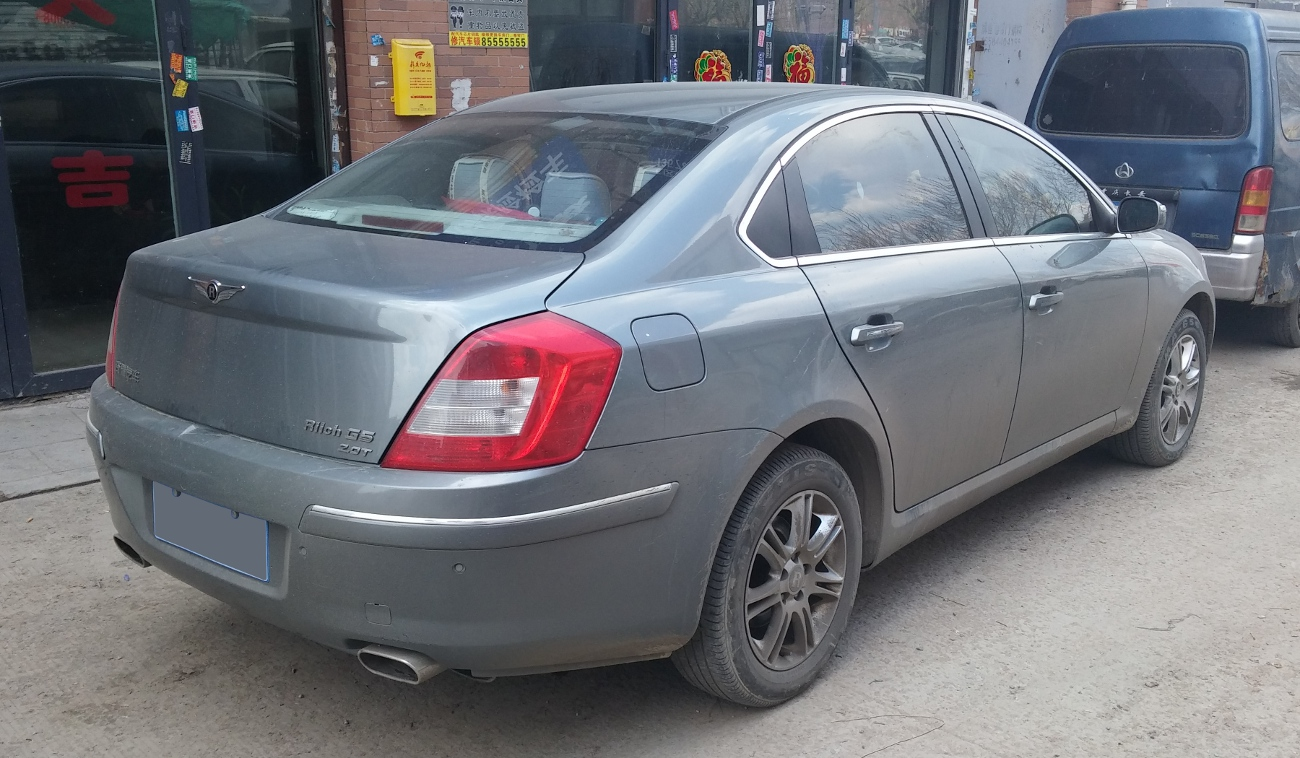 Riich G5 photographed in Changchun, Jilin province, China.